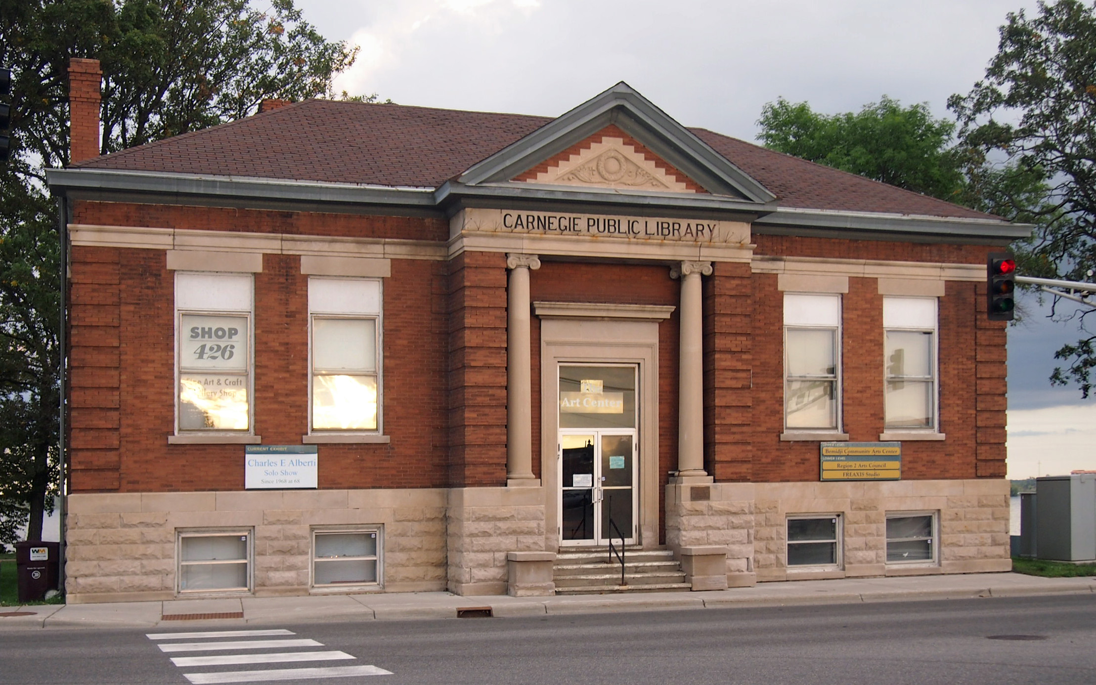 Bemidji Carnegie Library (now an art center), 426 Bemidji Ave, Bemidji, Minnesota, USA. Viewed from the west-northwest.